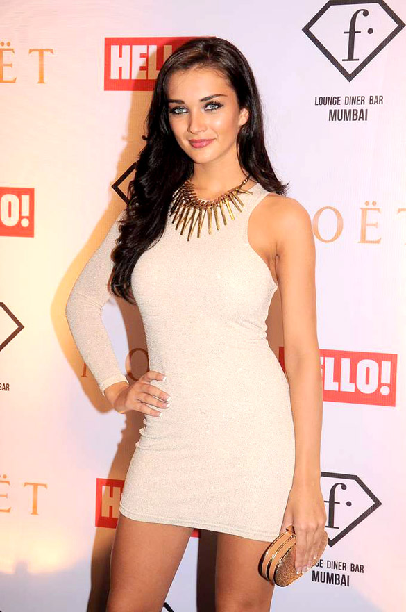 Amy Jackson graces the Moet N Chandon bash at F bar